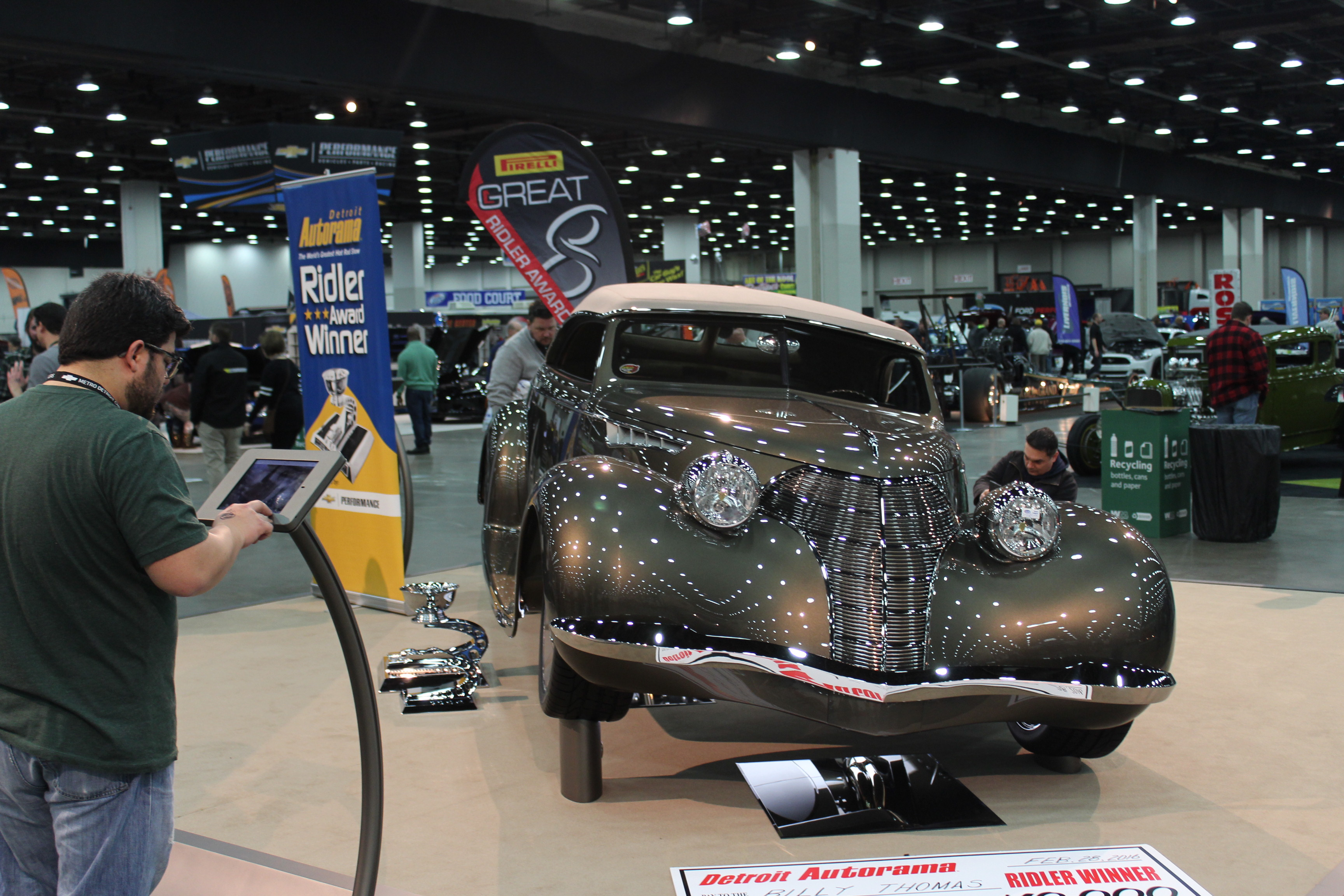 The 2016 Ridler Winner: A 1939 Oldsmobile, Owned by Billy Thomas.